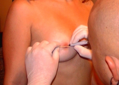 One Stop Piercing Shop: Piercing a female breast